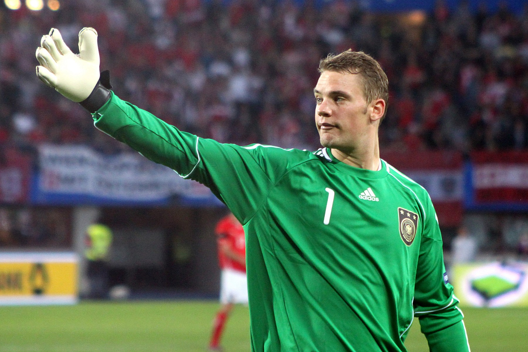 Manuel Neuer (FC Schalke 04 / FC Bayern München), german national football team